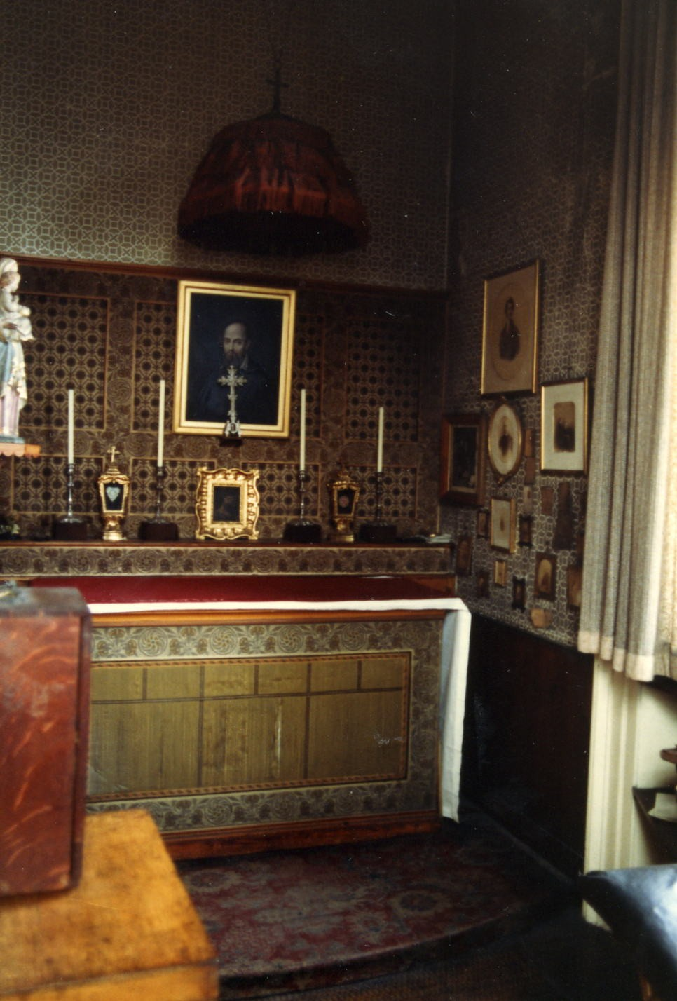 Newman's private chapel in the Birmingham Oratory